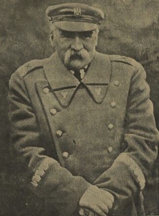 One of the last photographs of Józef Piłsudski (1867-1935).